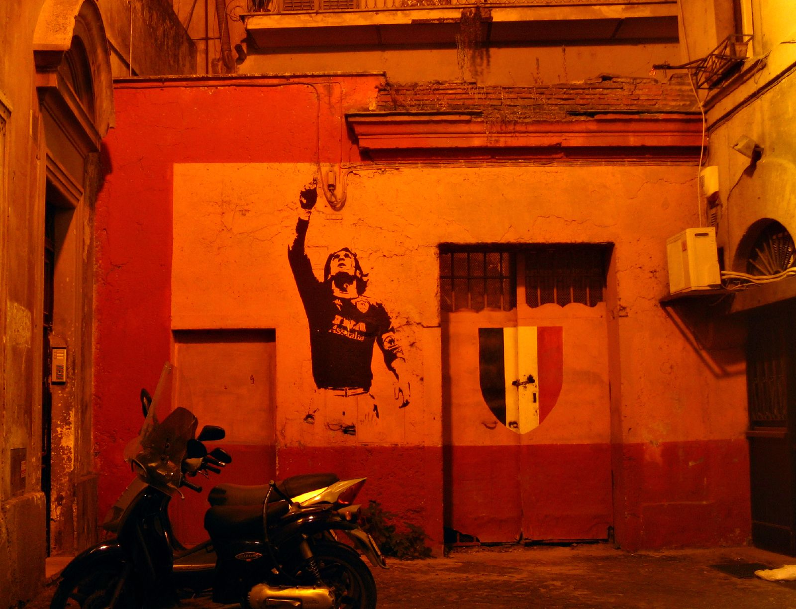 Mural graffiti dedicated to Francesco Totti in the Rome district Monti, celebrating the victory of A.S. Roma's 3rd Scudetto (2001).